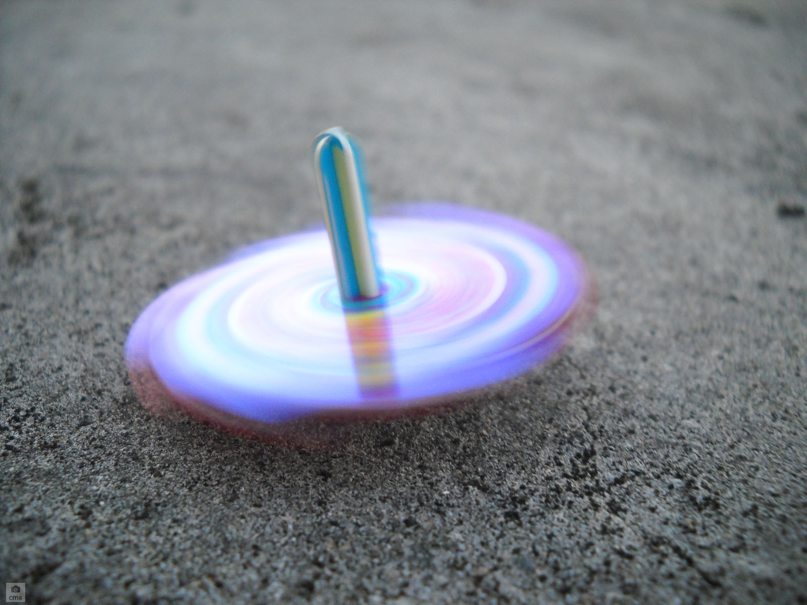 Spinning top